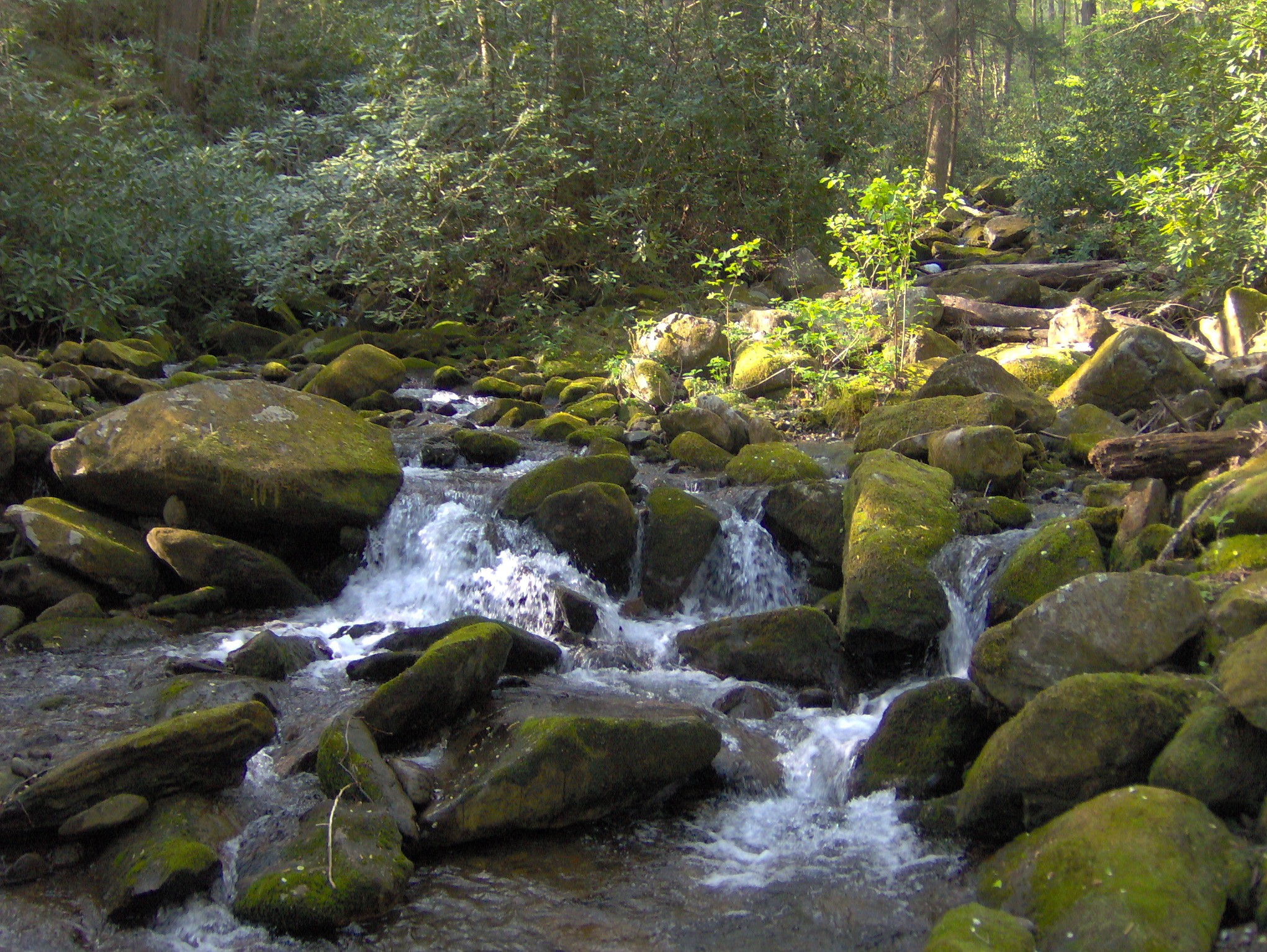 Rock Creek within the Great Smoky Mountains National Park, in Tennessee, the southeastern United States.